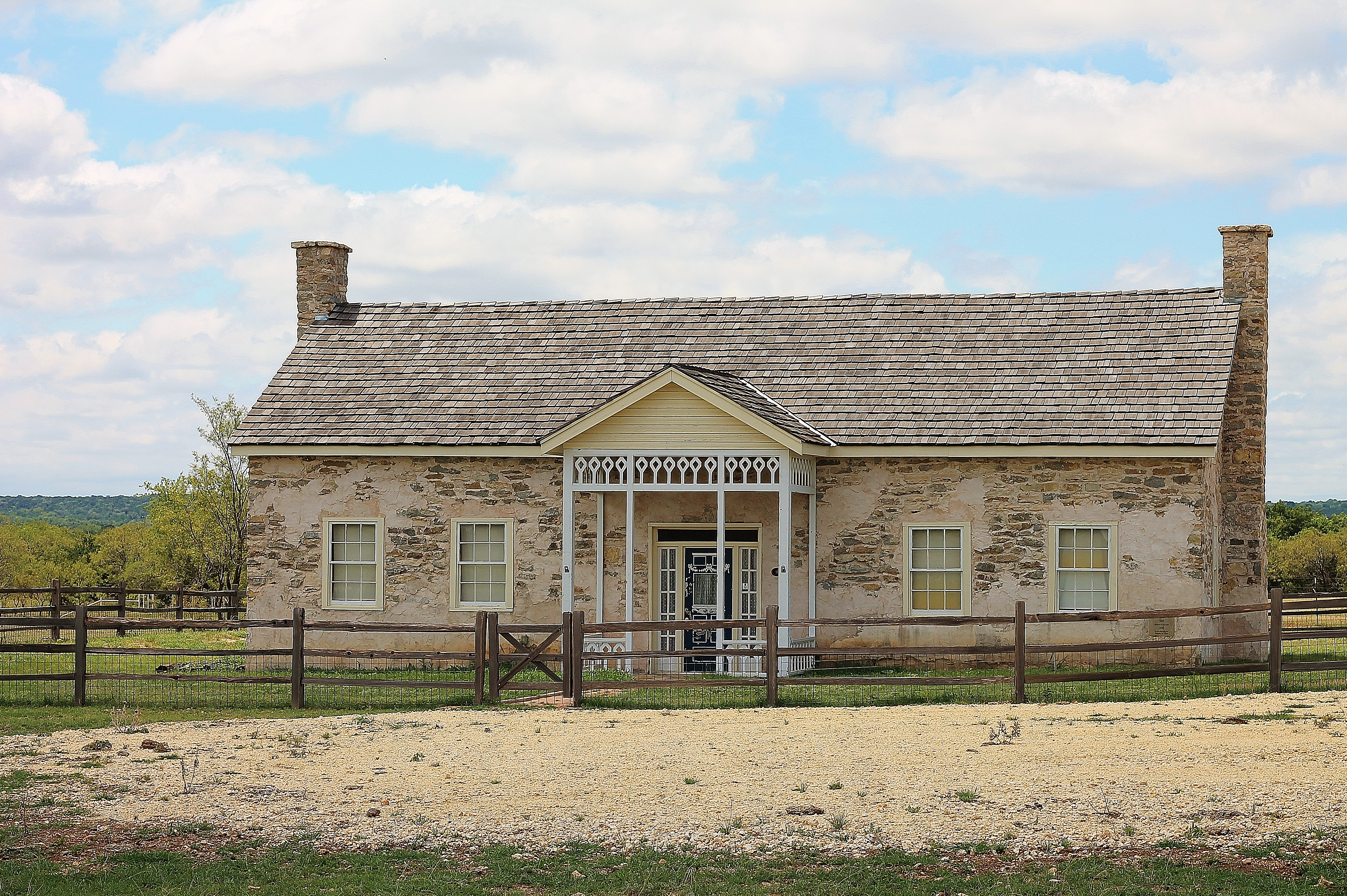 Jens and Kari Ringness Farm